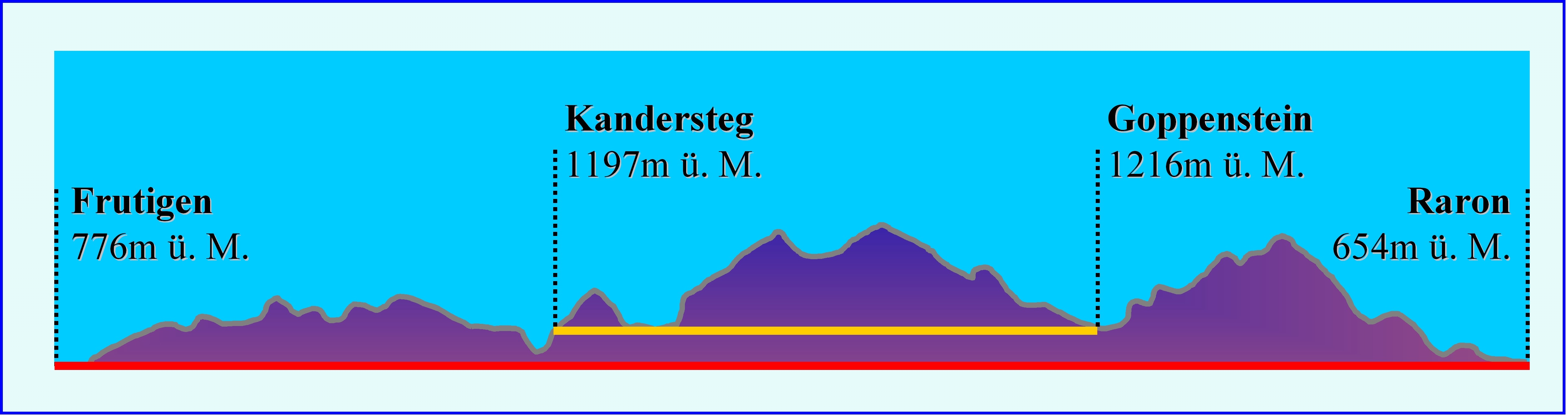 Lotschberg tunnel profile